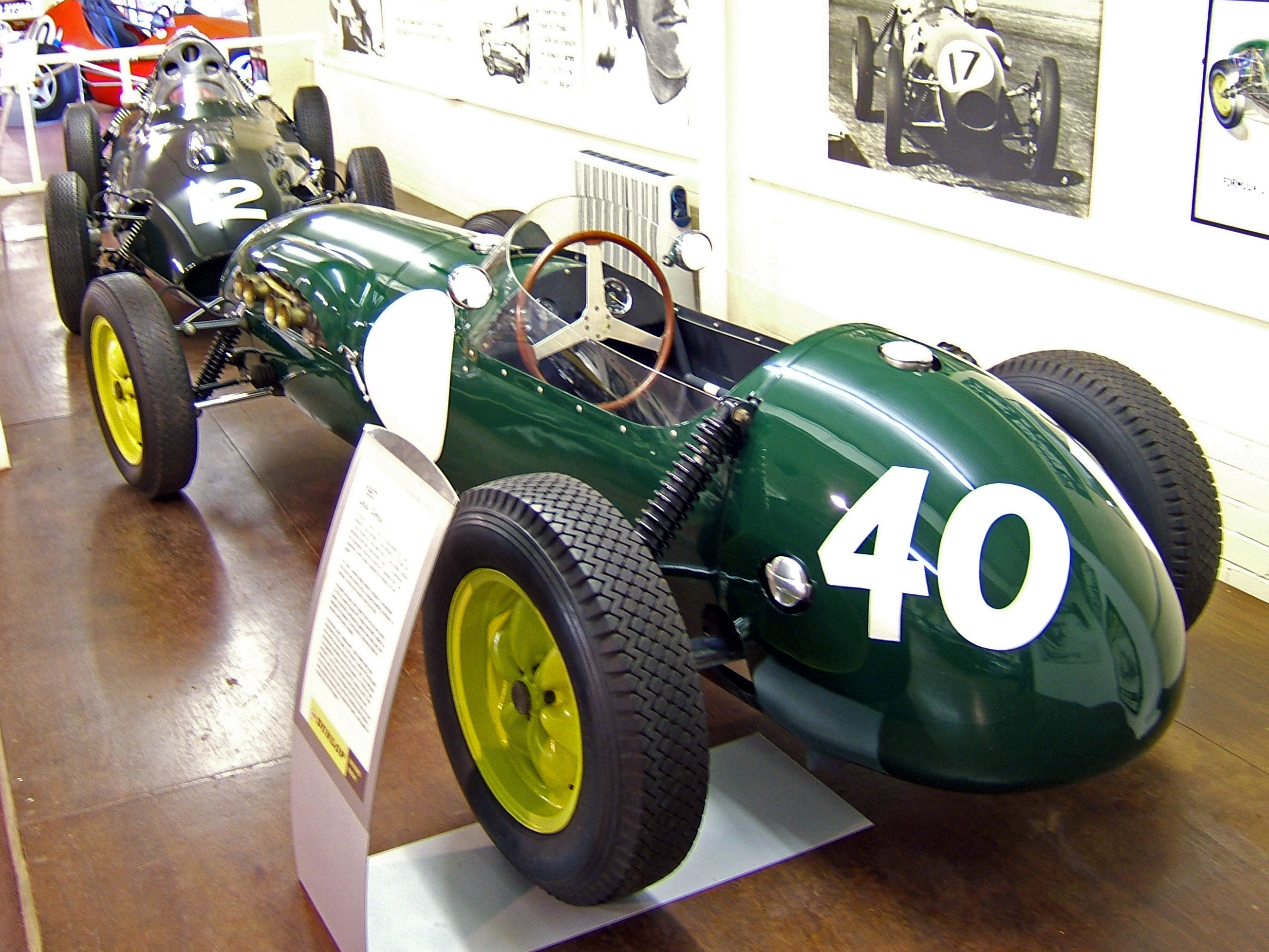 The rear three-quarter view of a Lotus 12, the first Lotus Formula One model, on show with a Lotus 16 in the Donington Grand Prix Collection museum, Leics., UK.